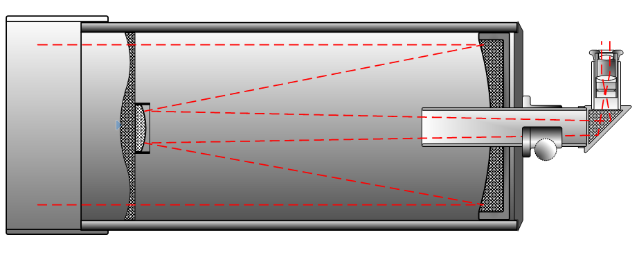 Schmidt-Cassegrain telescope.